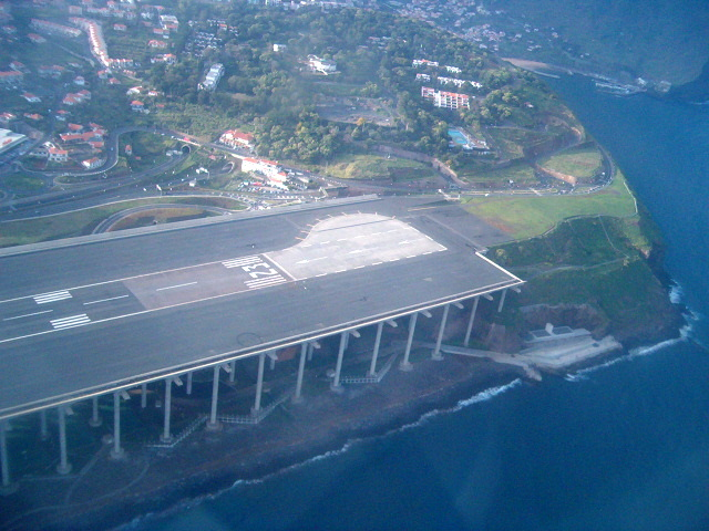 Airport of Madeira